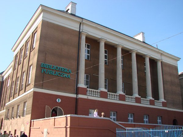 Wola Library in Warsaw